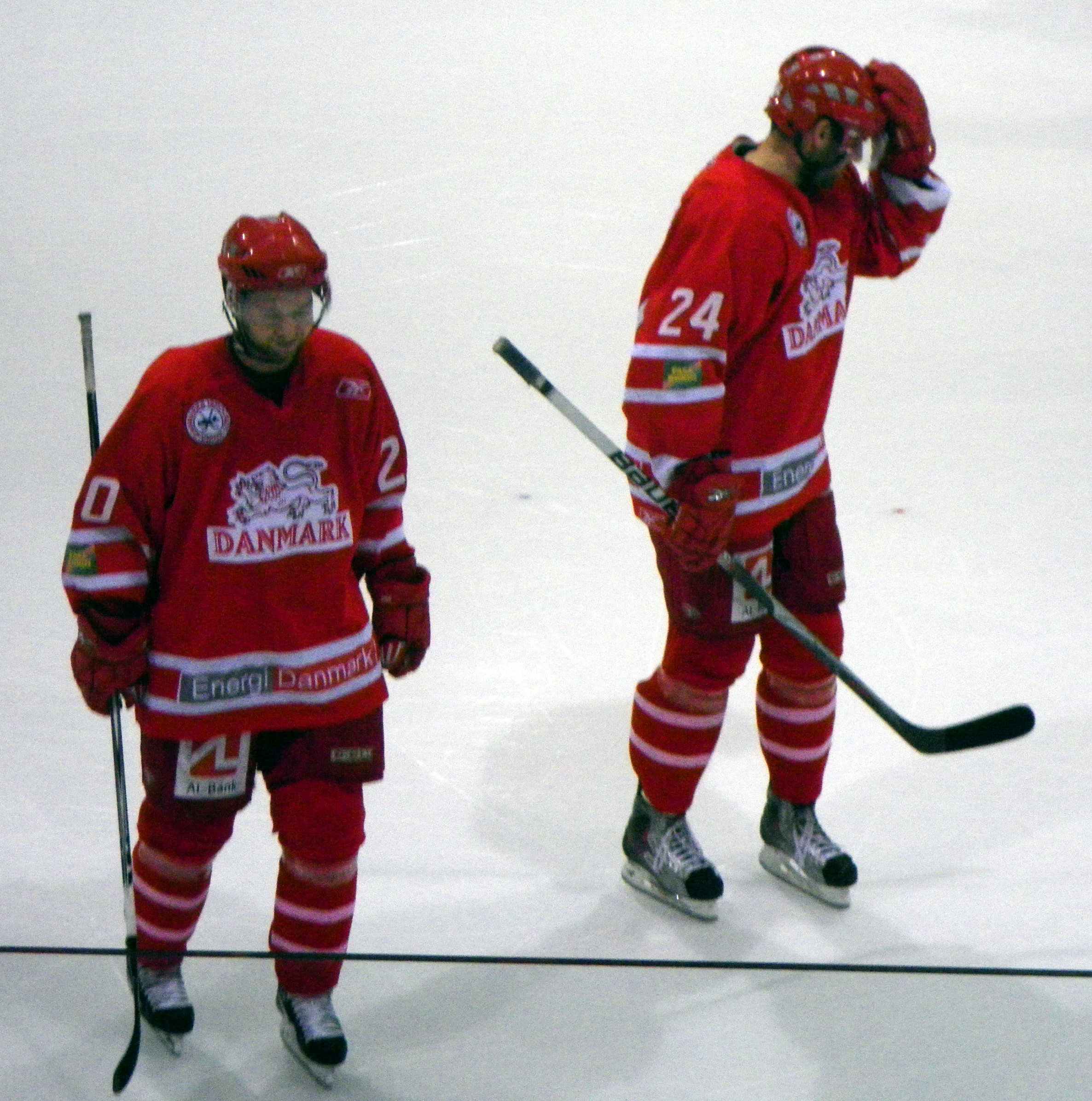 Kim Lykkeskov, Alexander Sundberg, danish ice hockey players with team Denmark. Friendly against team France